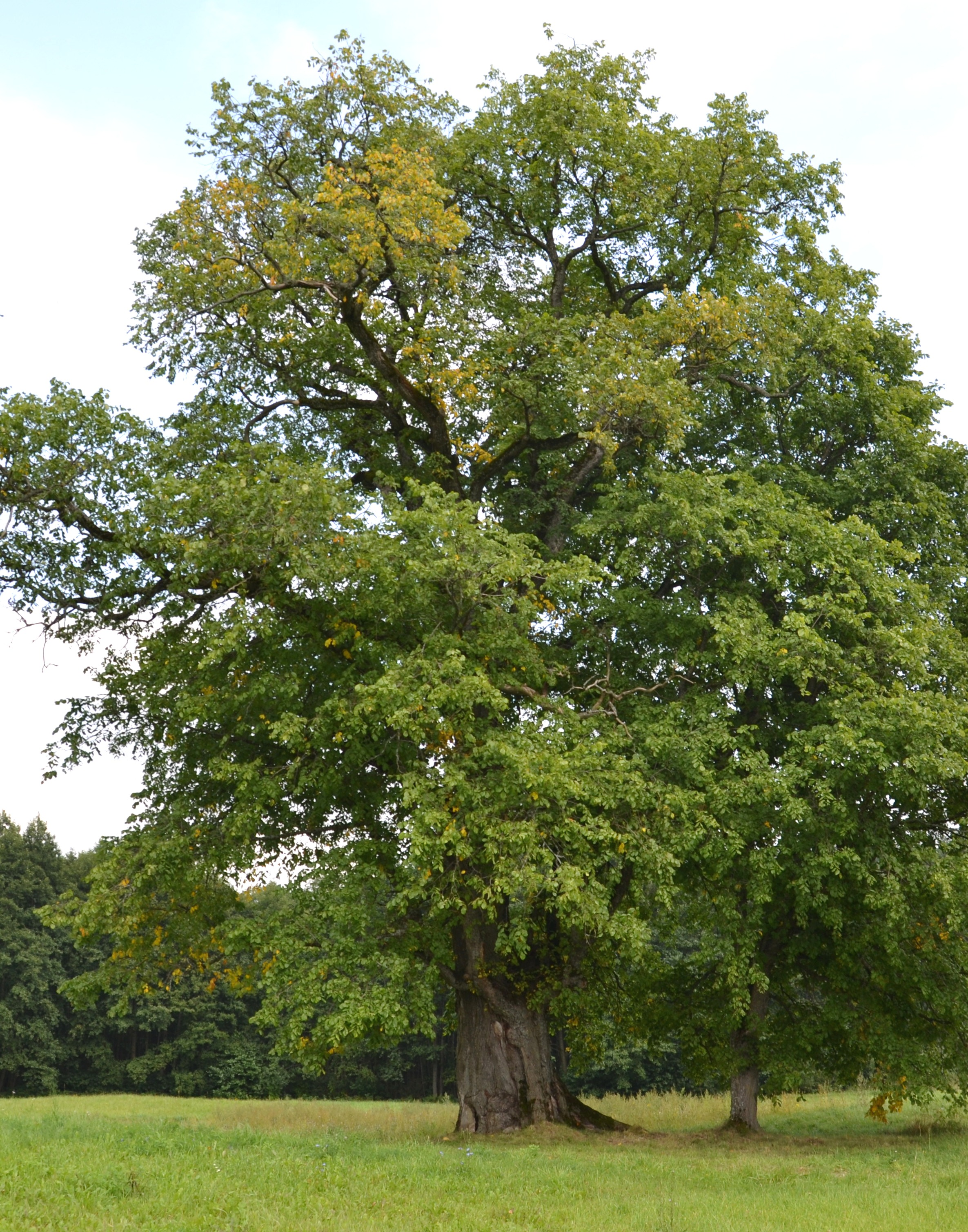 Old elm, Geisciunai, Alytus district, Lithuania